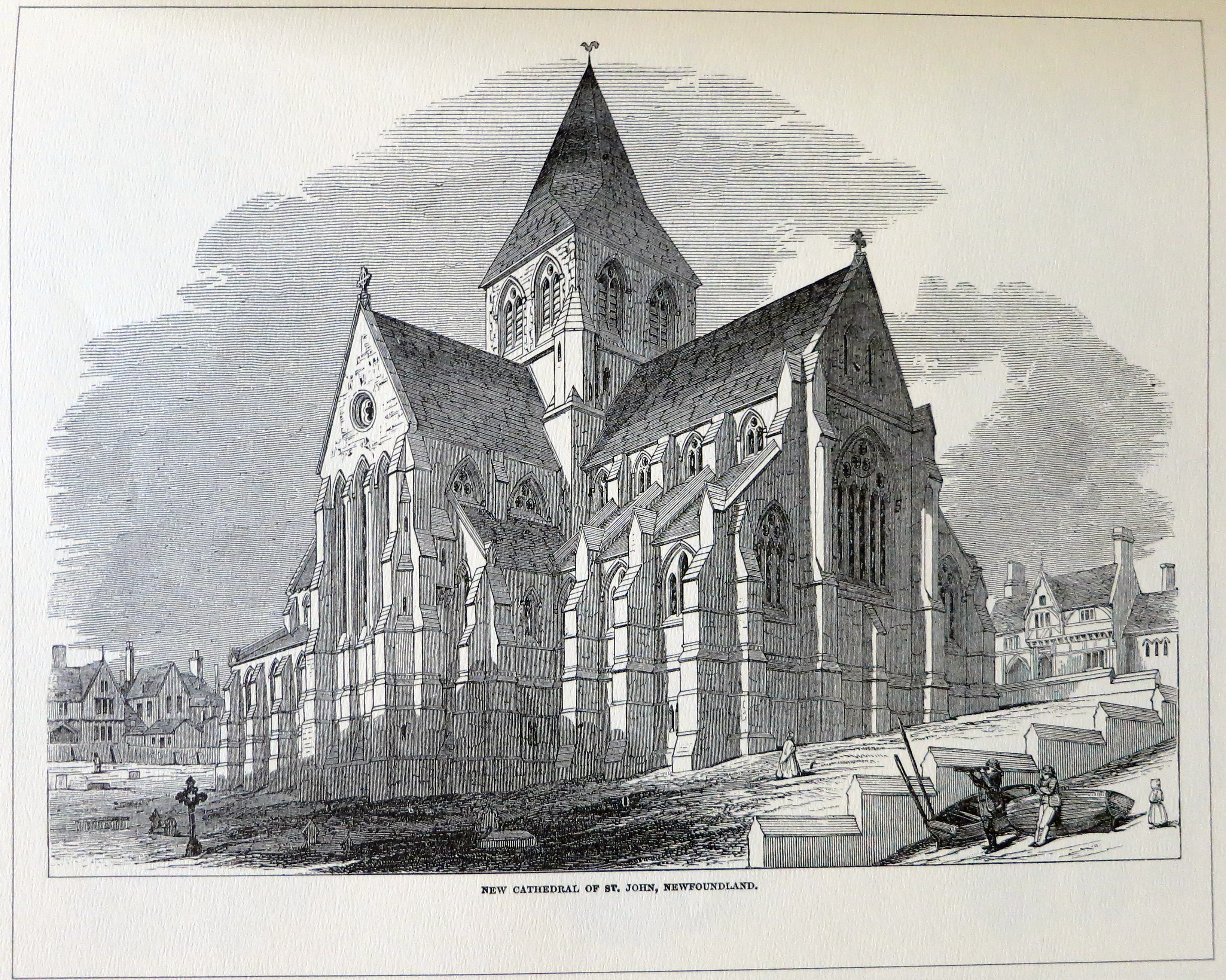 Church of England Cathedral, St. John's, Newfoundland, 23 June 1871